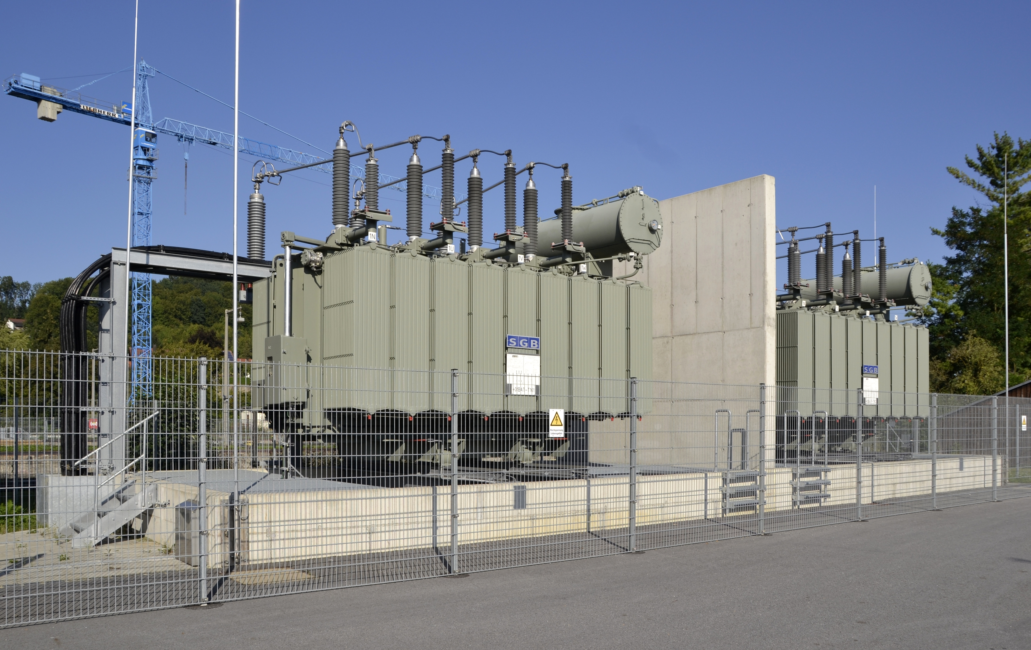 Transformers at Kraftwerk Kachlet, Passau.